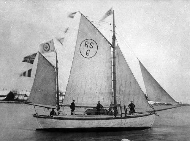 Norwegian rescue boat RS 6 Nordland